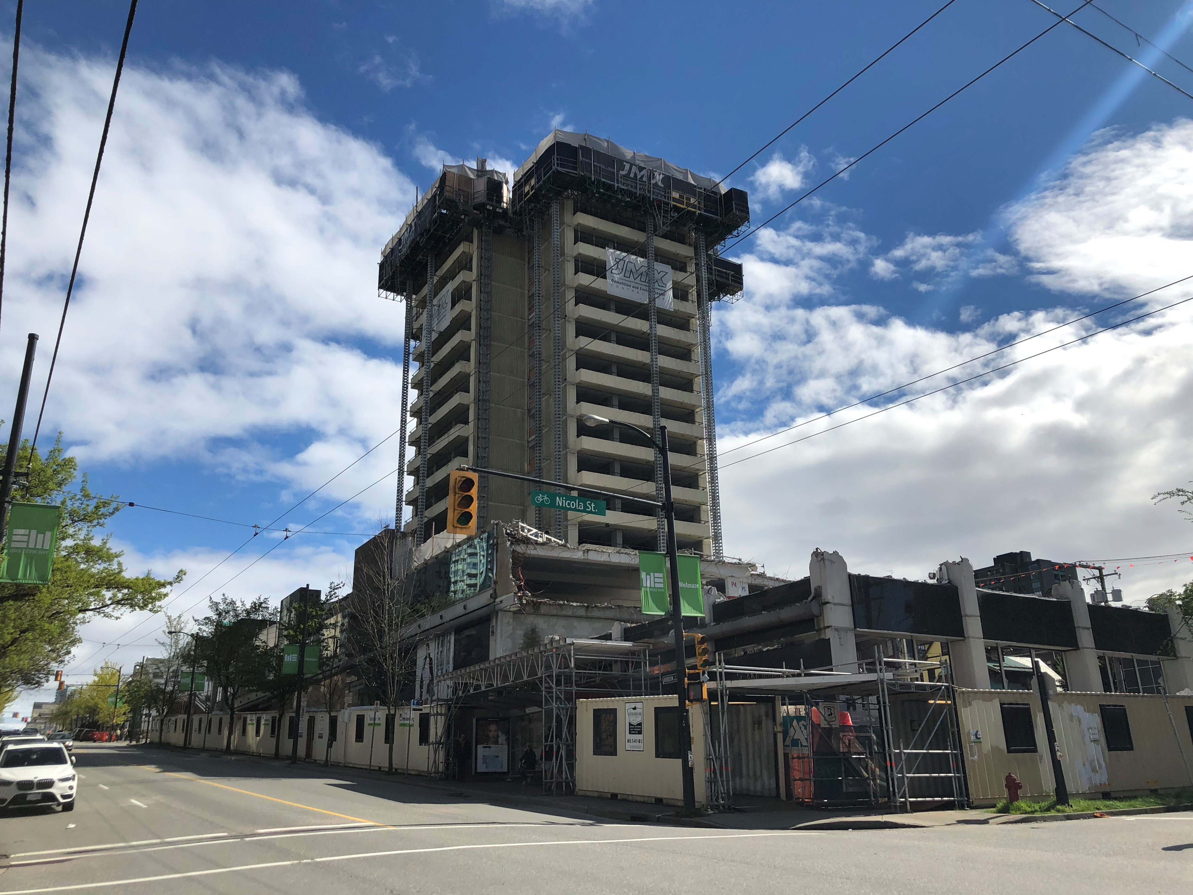 Demolition of Empire Landmark Hotel, 1400 Robson Street, Vancouver, British Columbia, Canada. Opened 1973, demolished 2019.